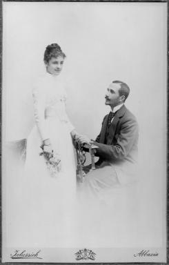 Paweł Sapieha i Matylda Windisch-Grätz